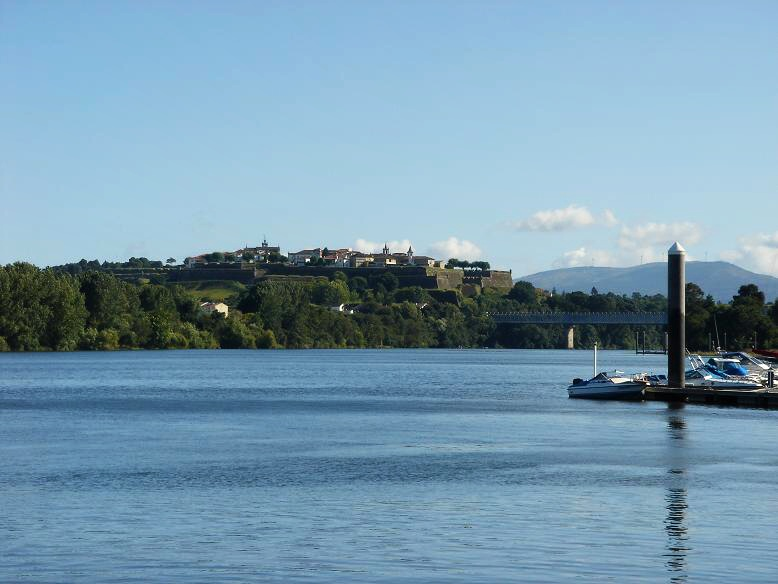 Minho River in front of Valença.